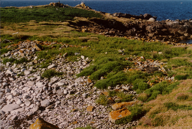 Looking NNE across the narrowest part of Annet, Isles of Scilly.